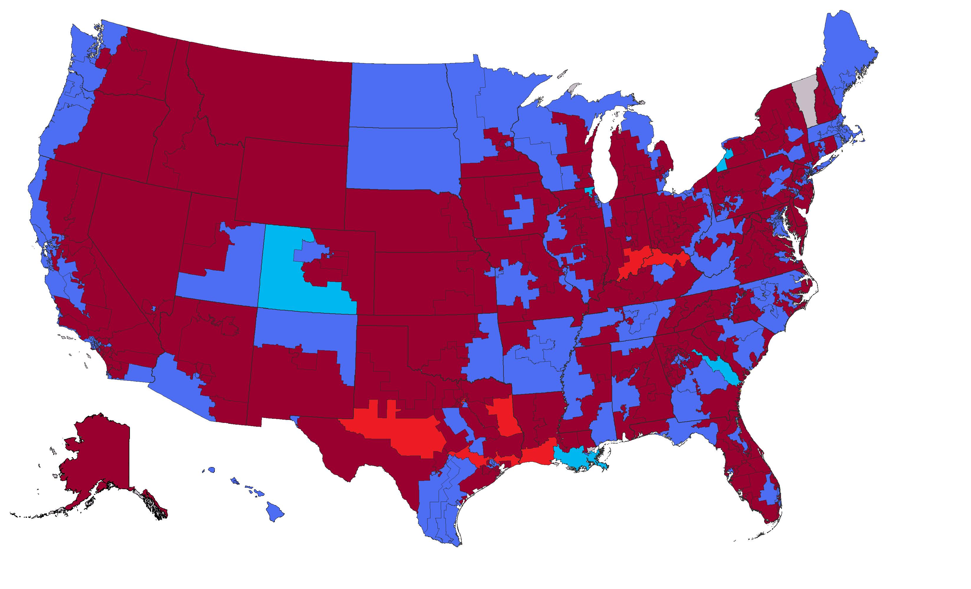 (en) election results for the United States House of Representatives 2004 (de) Wahlergebnisse zum Repräsentantenhaus 2004